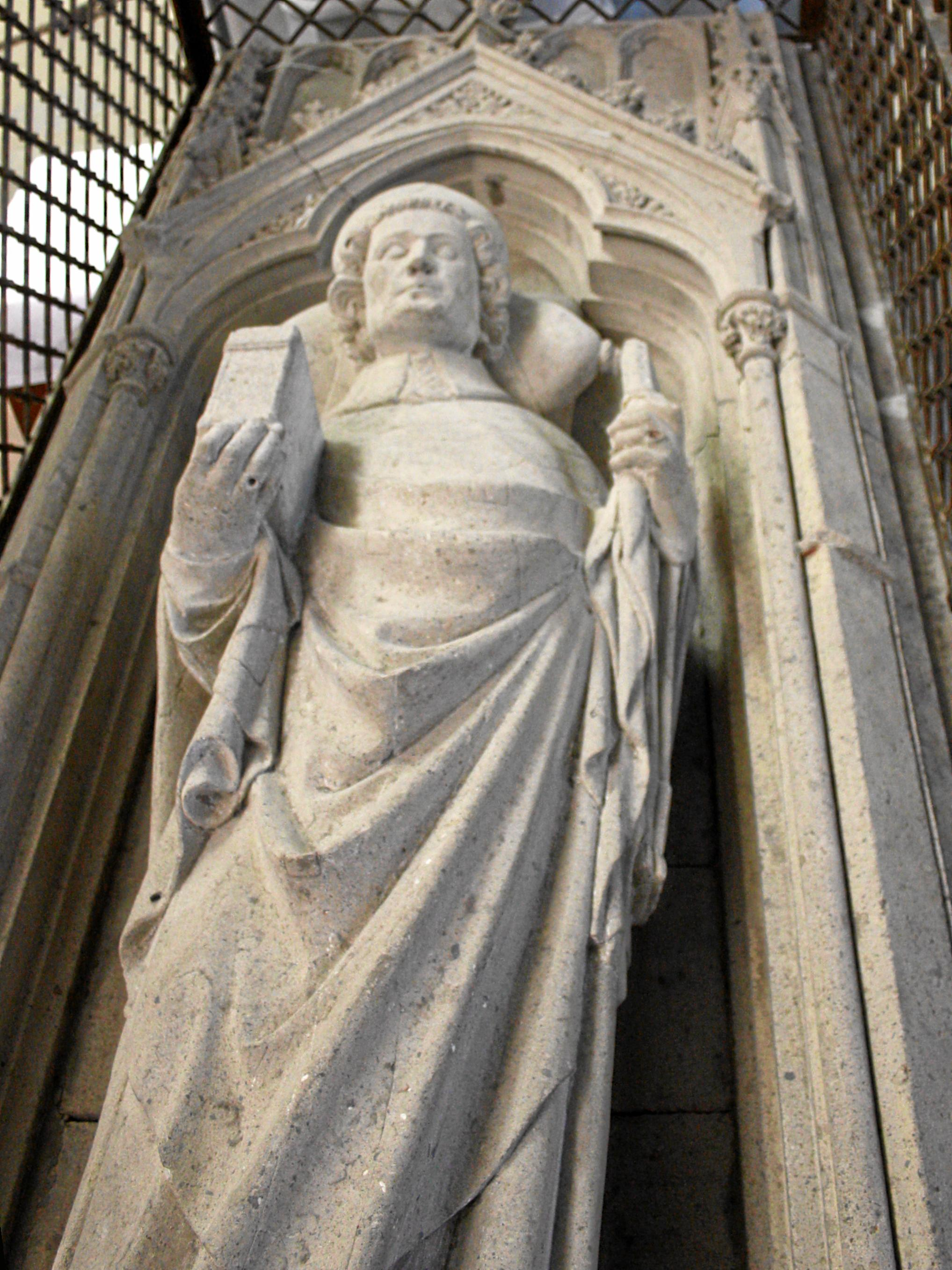 "Bergischer Dom" in Odenthal-Altenberg, Germany. Grave of Bruno III. of Berg, Archbishop from Cologne.